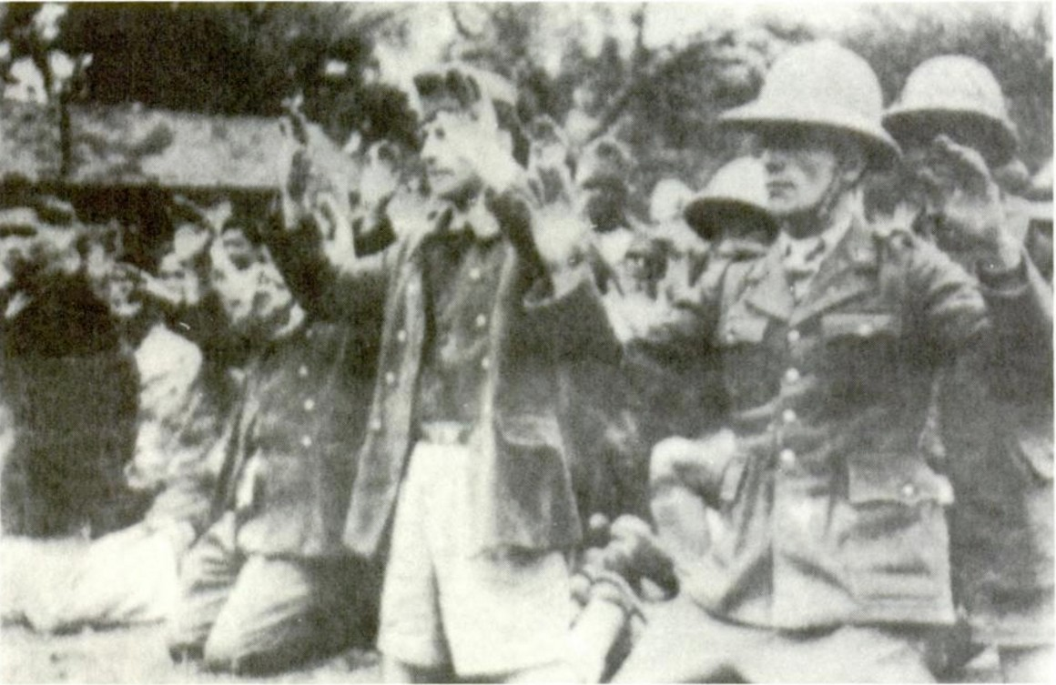 French army personnel captured by the Japanese at Hanoi during the Coup in March 1945